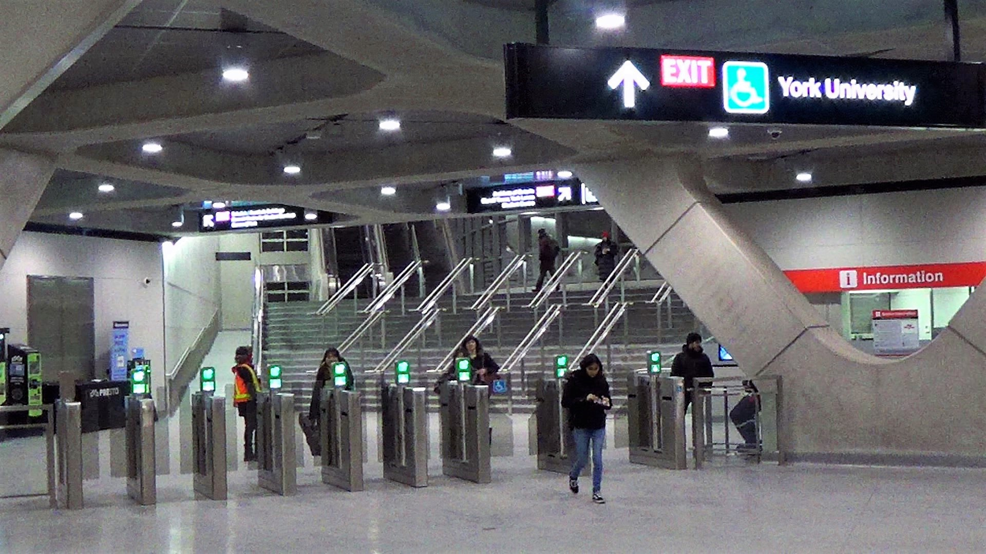 York University subway station concourse